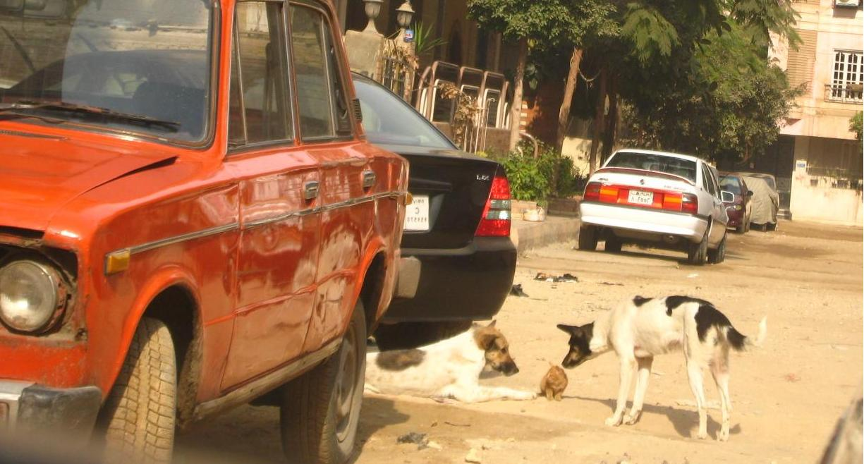 ONLY IN EGYPT! I was surprised while driving when I saw the dogs were taking care for the baby cat... I couldn't stand seeing this without taking the shot. So, I took it from the mirror of the car :)